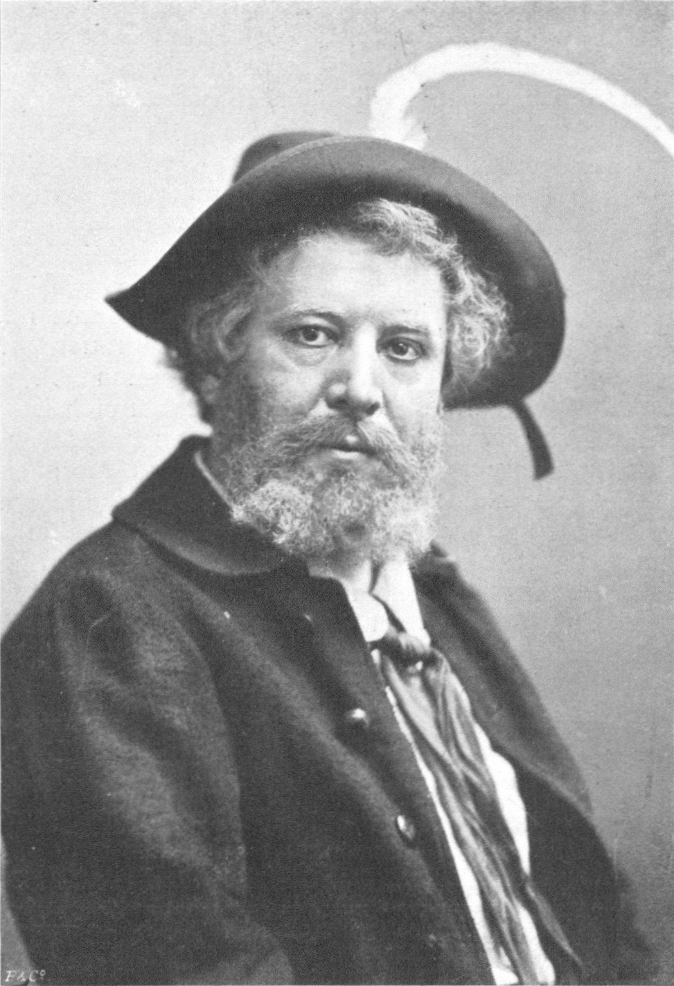 Leopold Demuth (1861-1910), Austrian vocalist